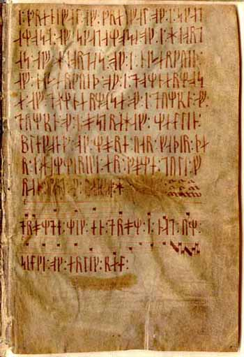 Subject: AM 28 8vo, the last leaf of the manuscript (f. 100r)